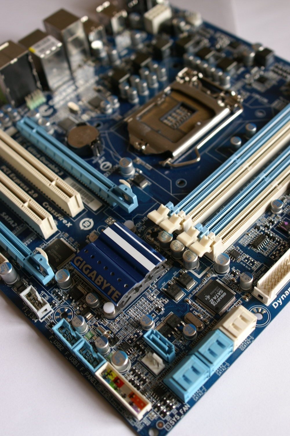 Picture of motherboard